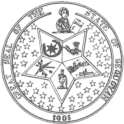 Seal of the proposed State of Sequoyah. Each point contains the seal of one of the Five Civilized Tribes, which were to comprise the state. In 1907 it was combined with the Seal of the Territory of Oklahoma to form the present Great Seal of the State of Oklahoma.